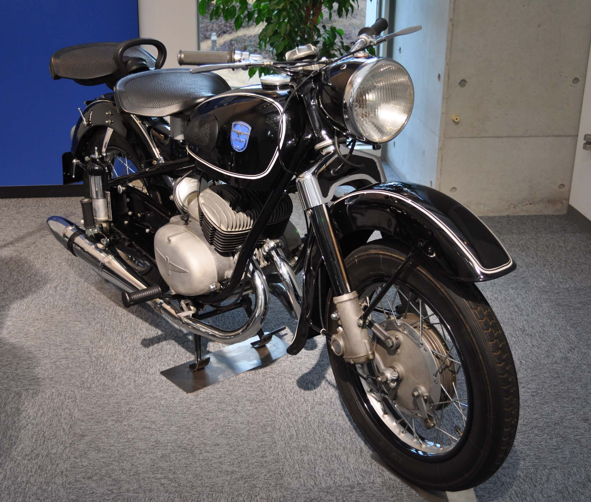 Adler MB250 (1954)